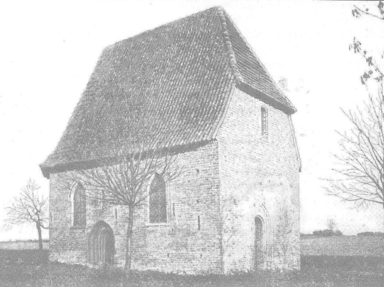 Siechenhaus Chapel in Schwanbeck near Dassow, c. 1900